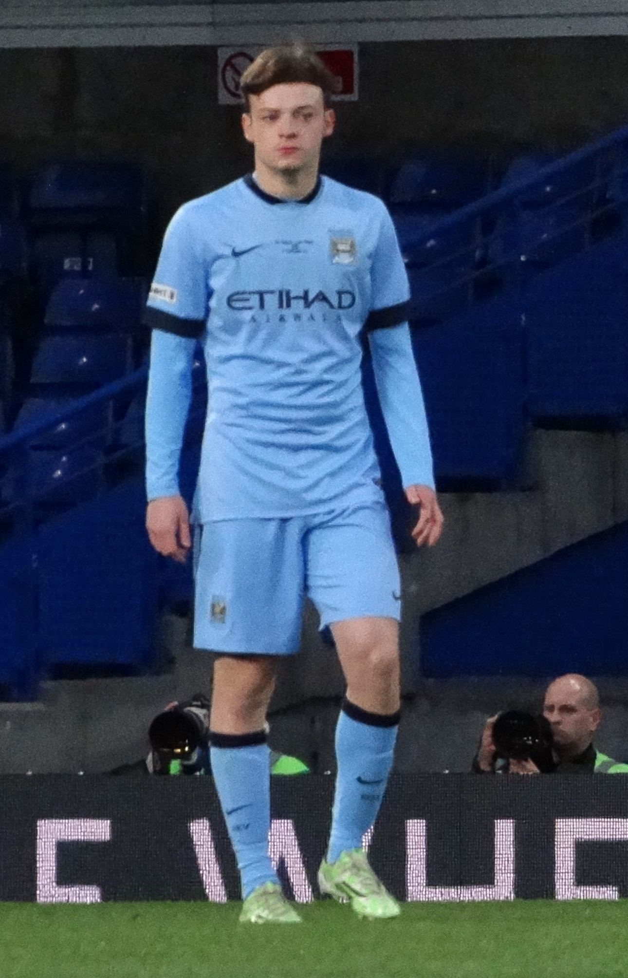 Brandon Barker playing for Manchester City youth team in 2015 FA Youth Cup final second leg against Chelsea.